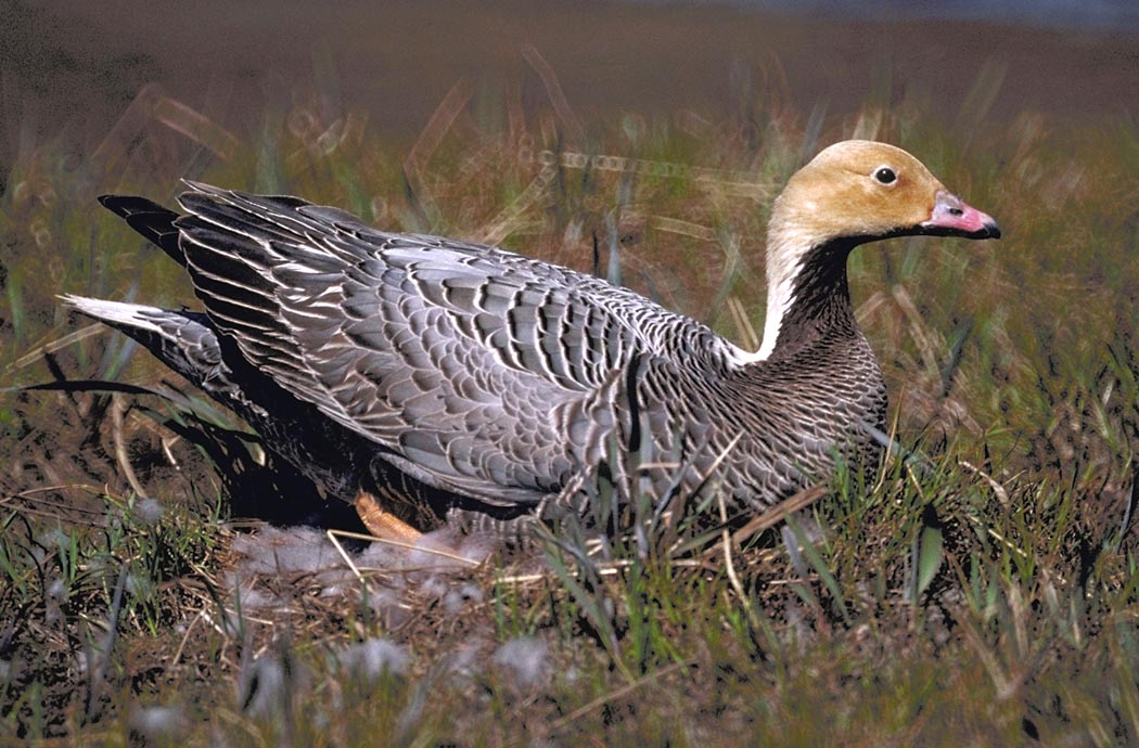 Female Emperor Goose (Anser canagicus) on nest (with head stained orange)